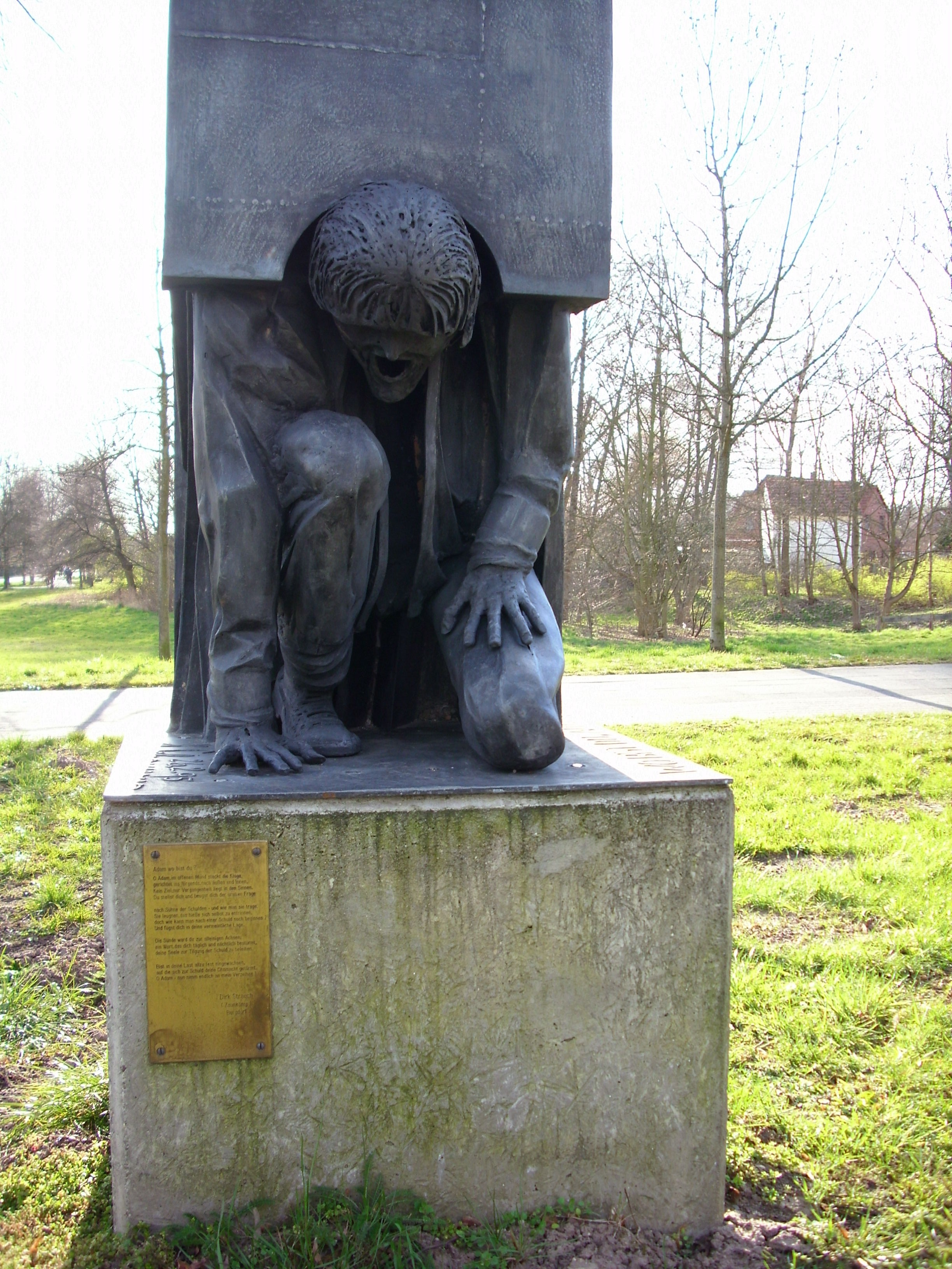 "Wo bist Du, Adam" by Hilko Schomerus in Burgdorf near Hannover